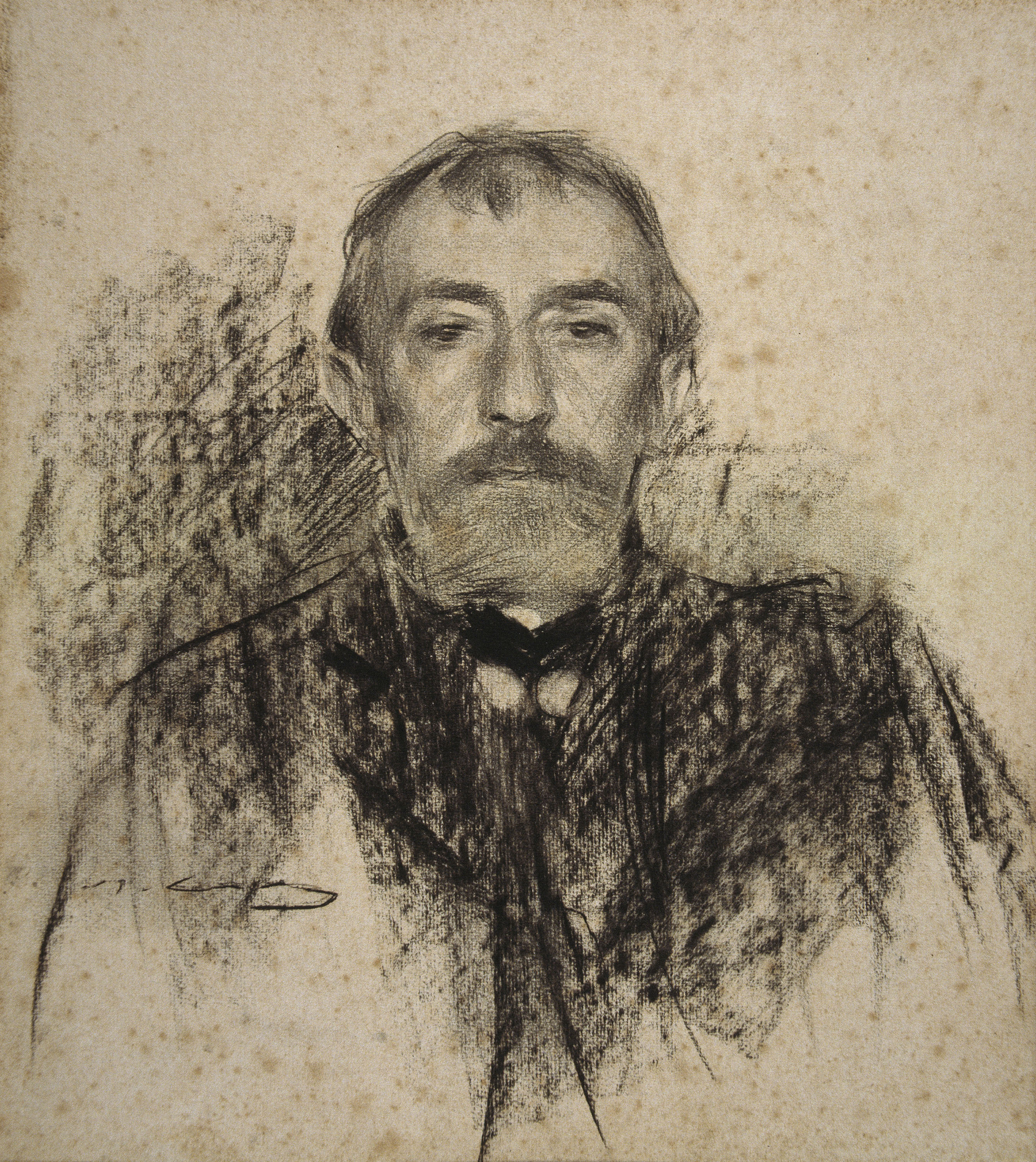 Portrait by Ramon Casas conserved at MNAC in Barcelona. Imagen 116